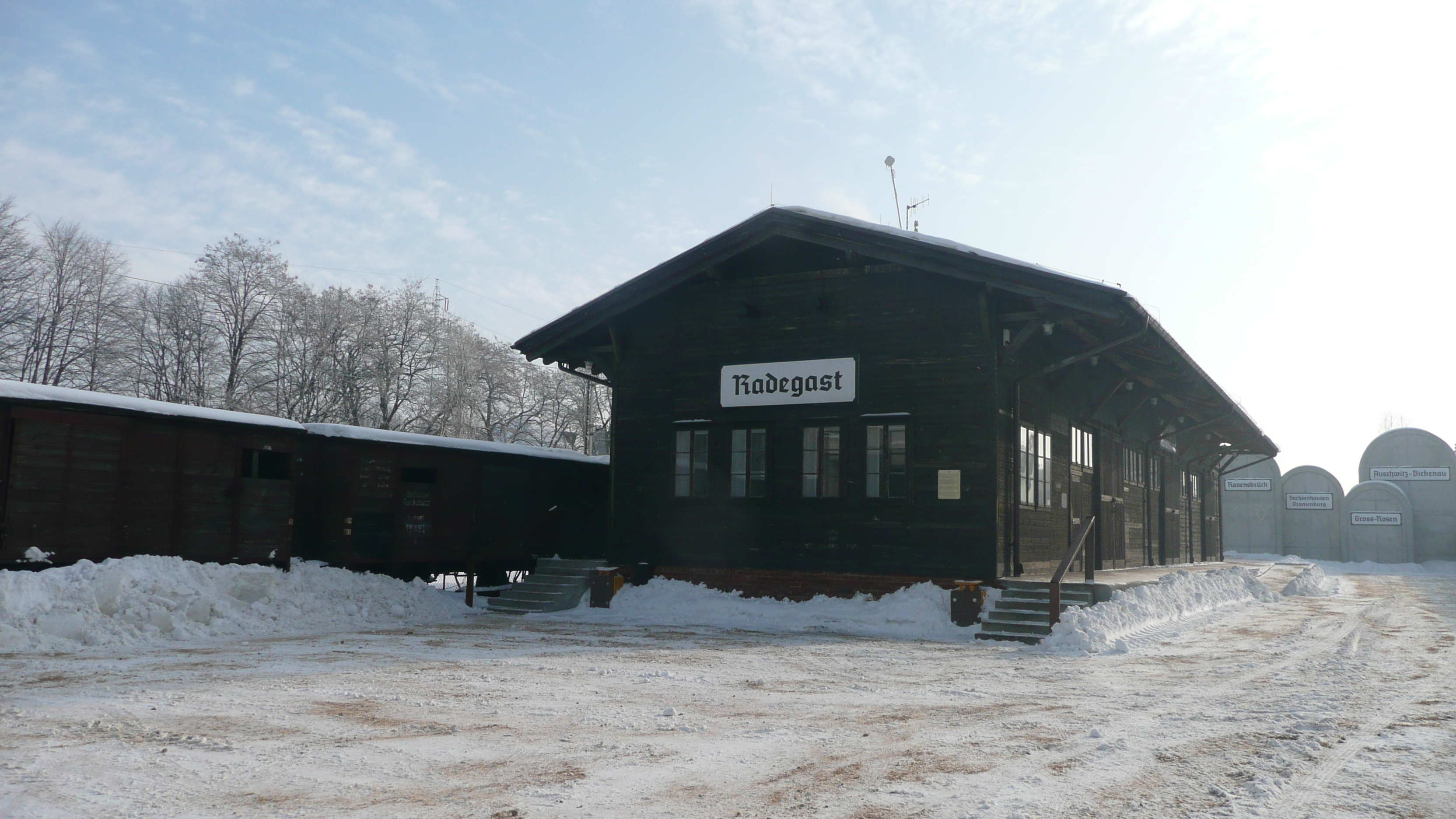 Łódź - Radegast Station